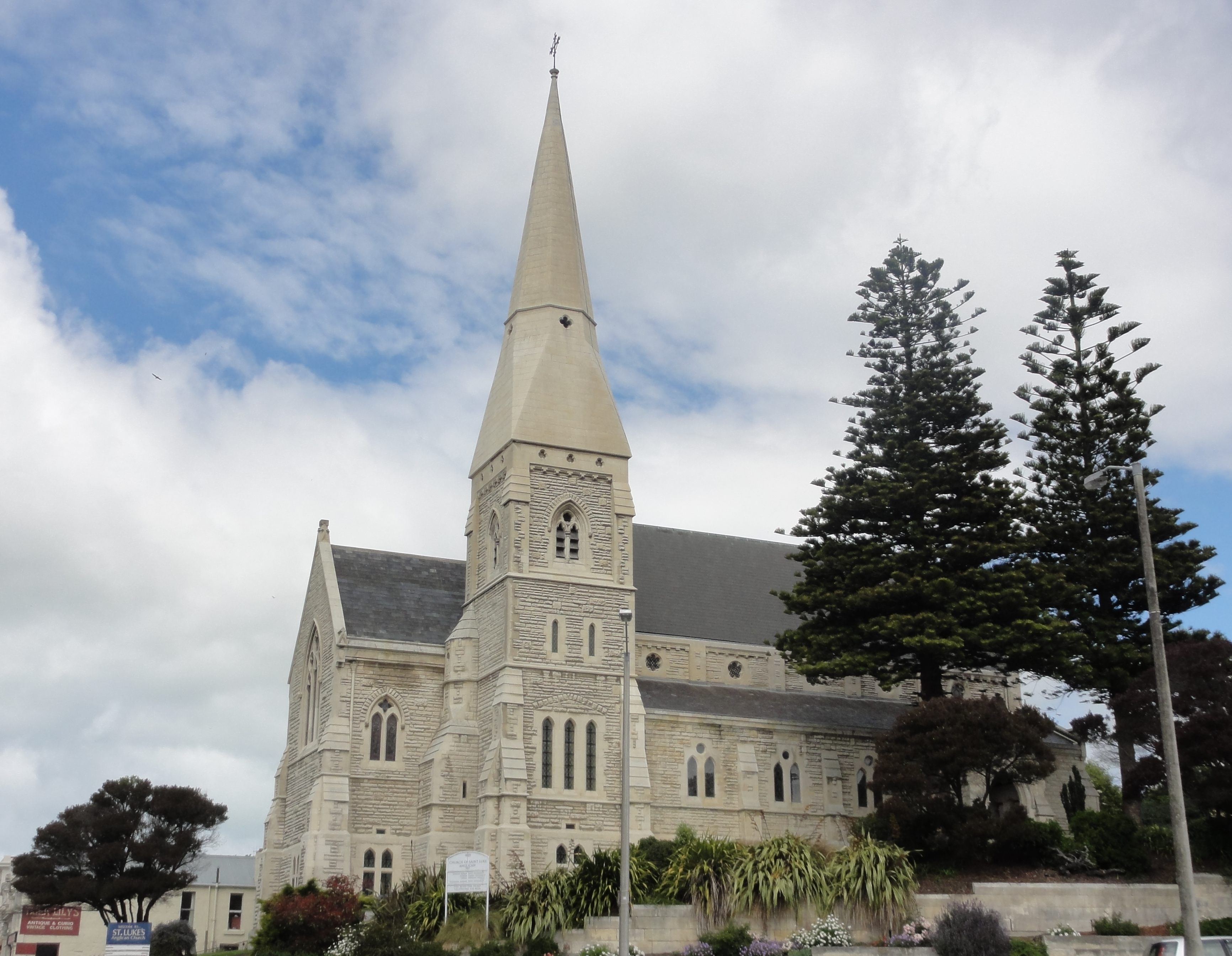 Church of St Luke, Oamaru, Otago, New Zealand